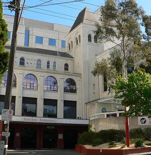 Epworth Hospital. 1920s building. Richmond, Victoria